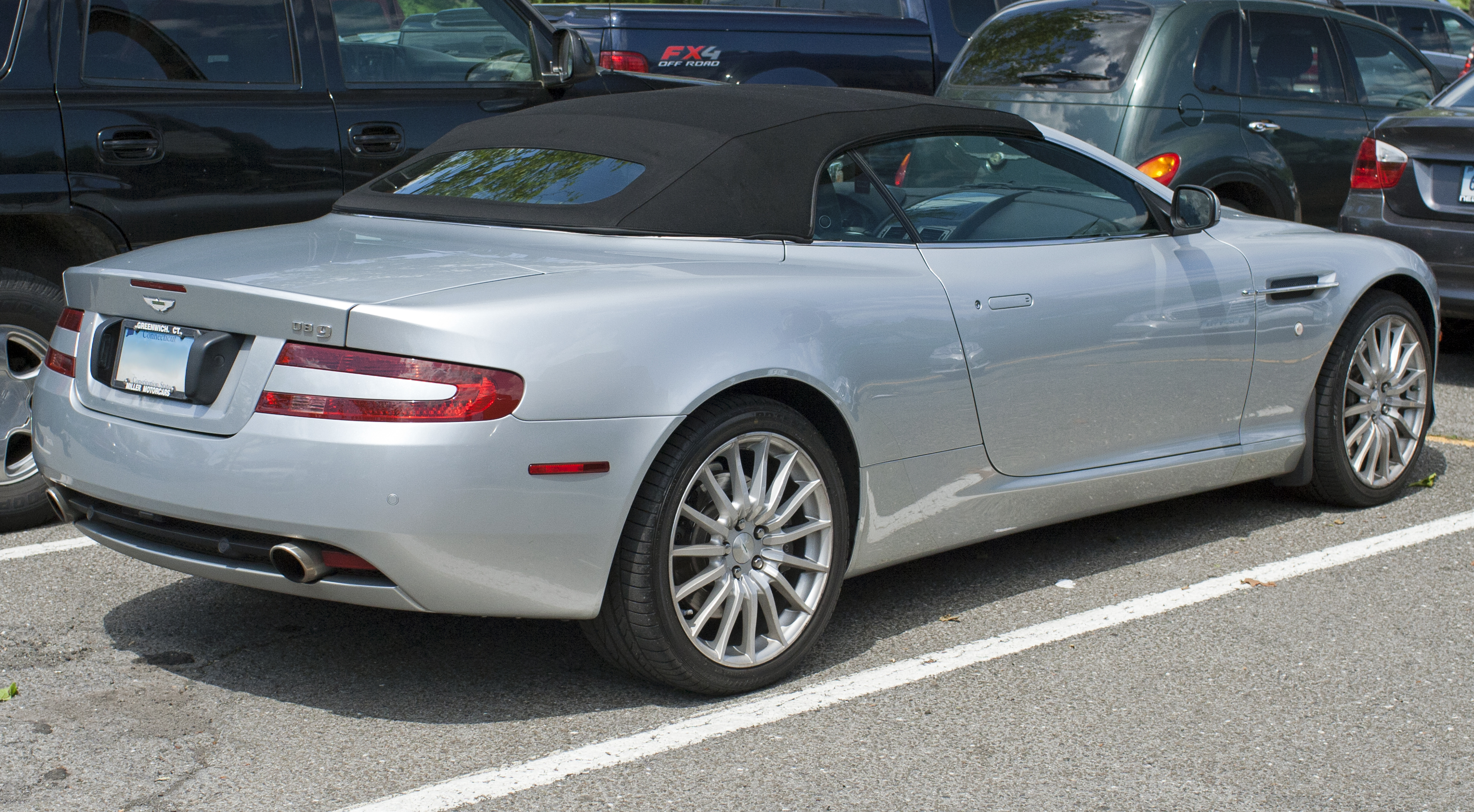 2011 Aston Martin DB9 Volante